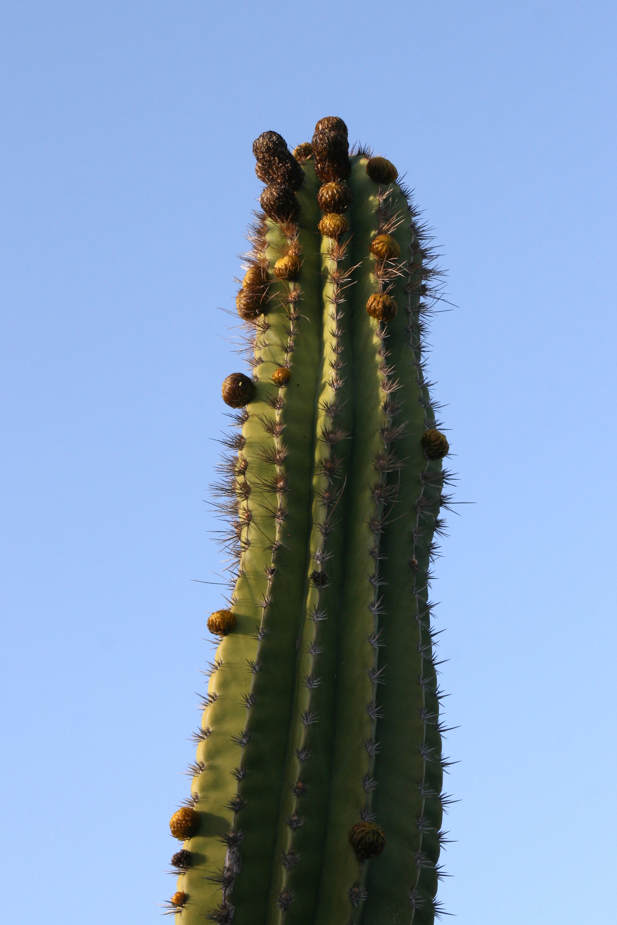 Pachycereus pecten-aboriginum grown at Avenida Maritima in Playa Blanca, Yaiza, Lanzarote, Canary Islands